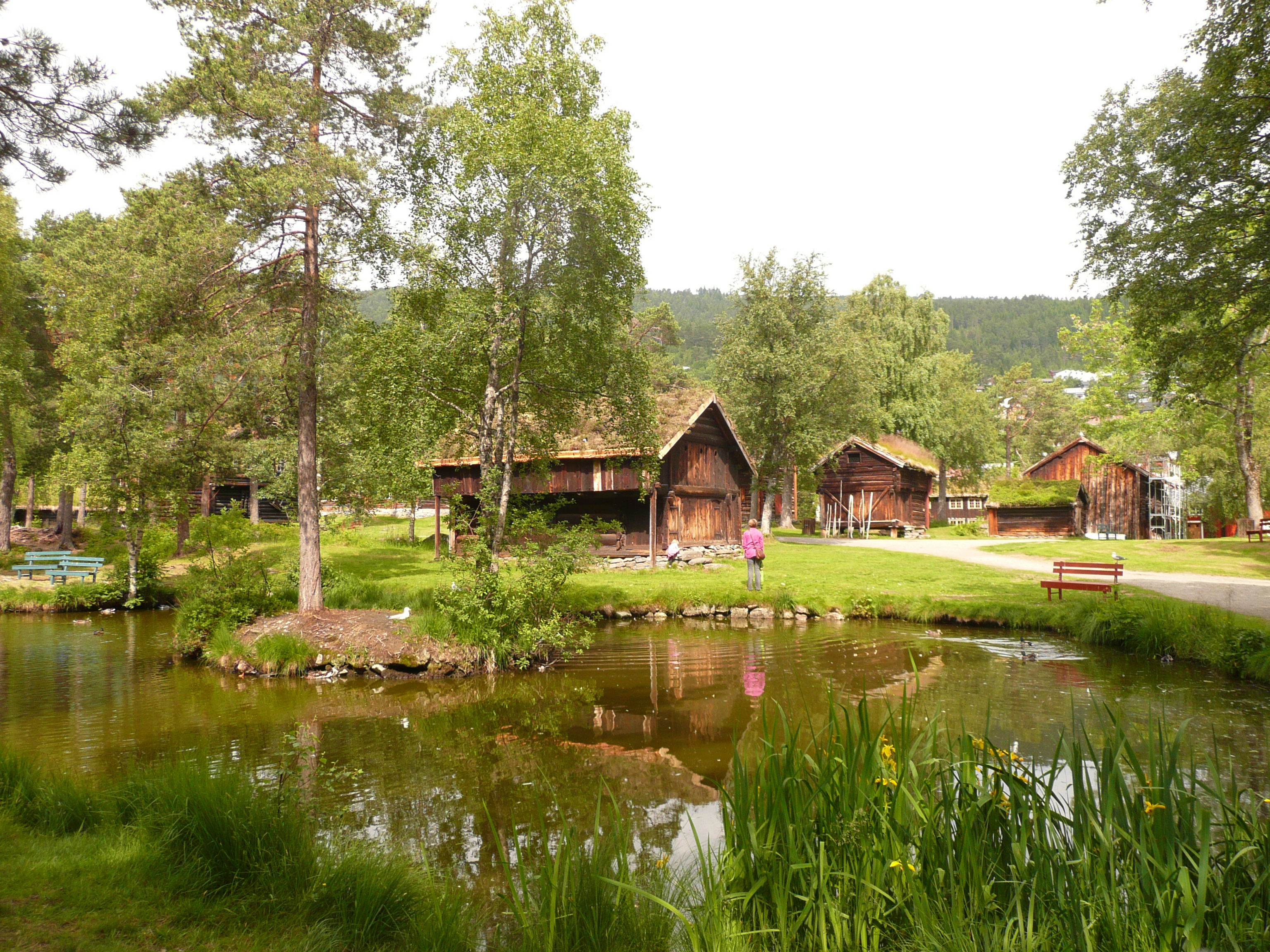 Panoramic view of the Romsdal Museum over its pond sourrounded by traditional houses, Molde.